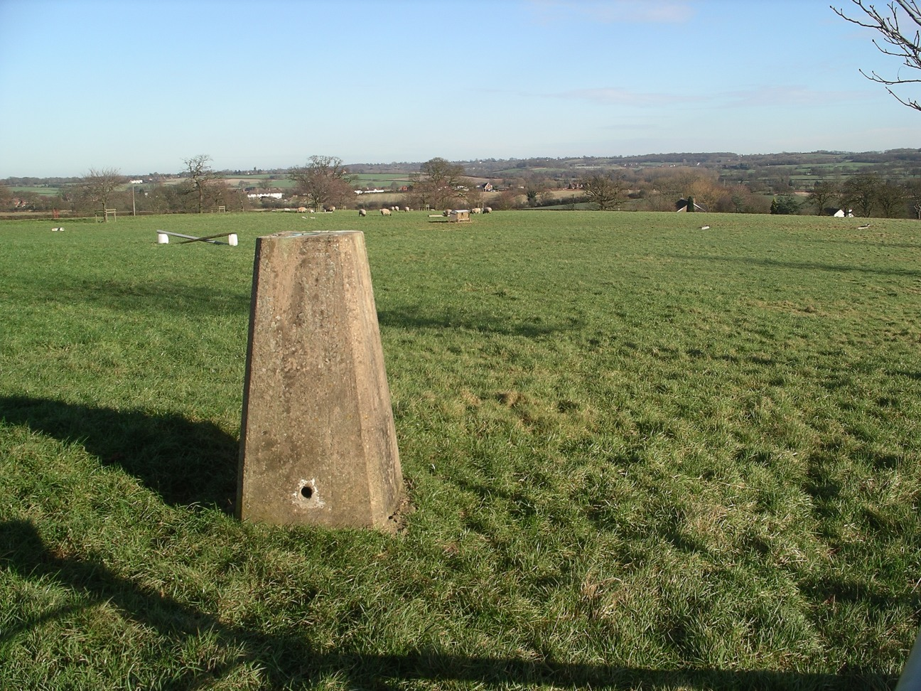 Trig point near Wootton Wawen Warwickshire Author: User:Velela. Location: Hill near Penyford Lane Source: Personal photograph taken by Author January 25 en:2005